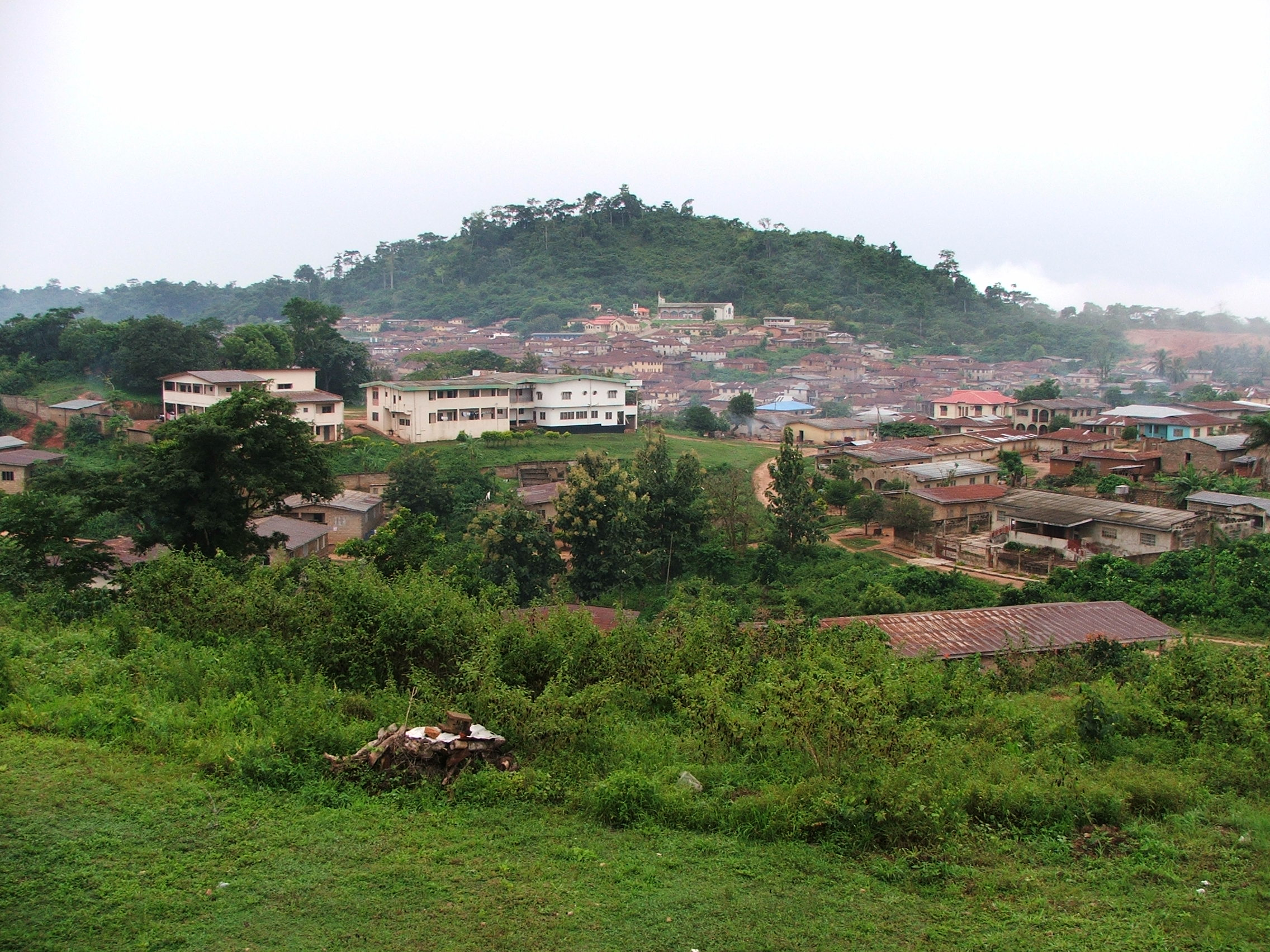 View of Ipele township. Ubara Hill in the background.